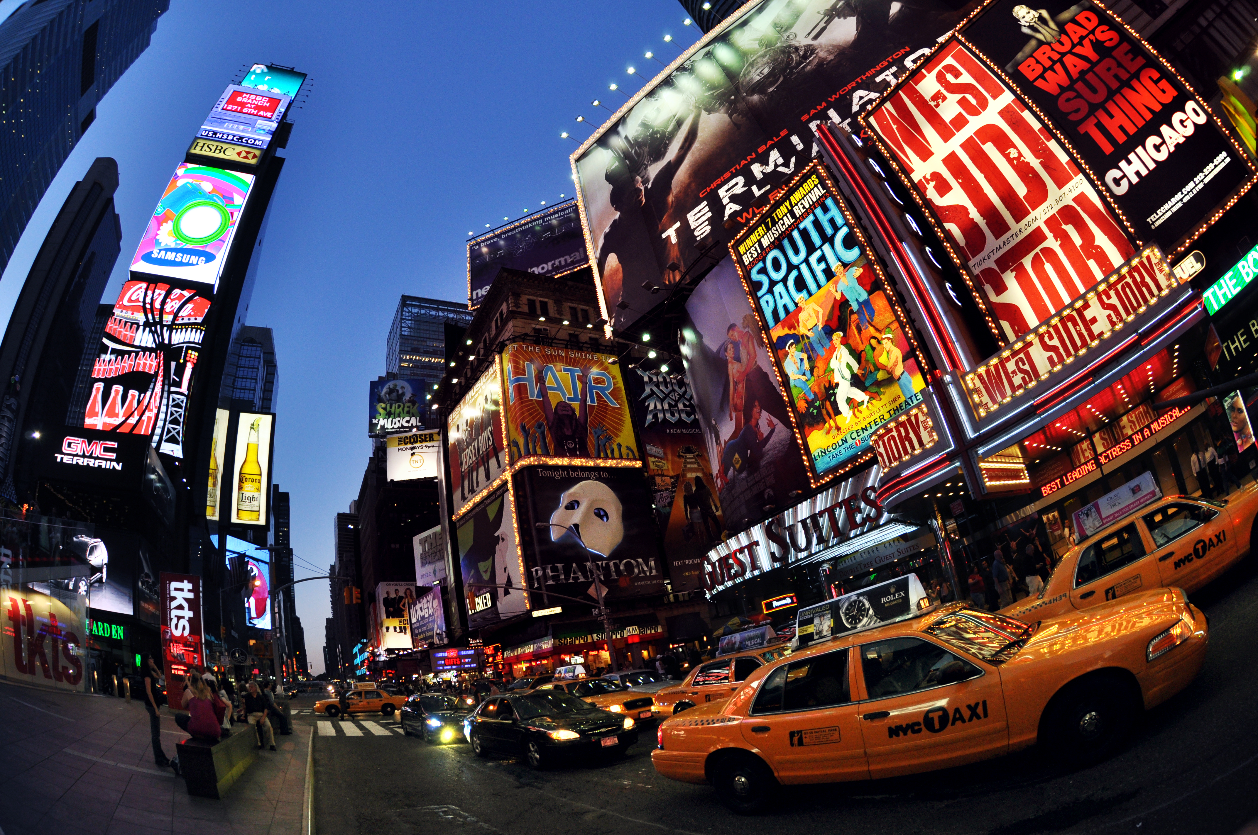 Time Square, Manhattan, NYC